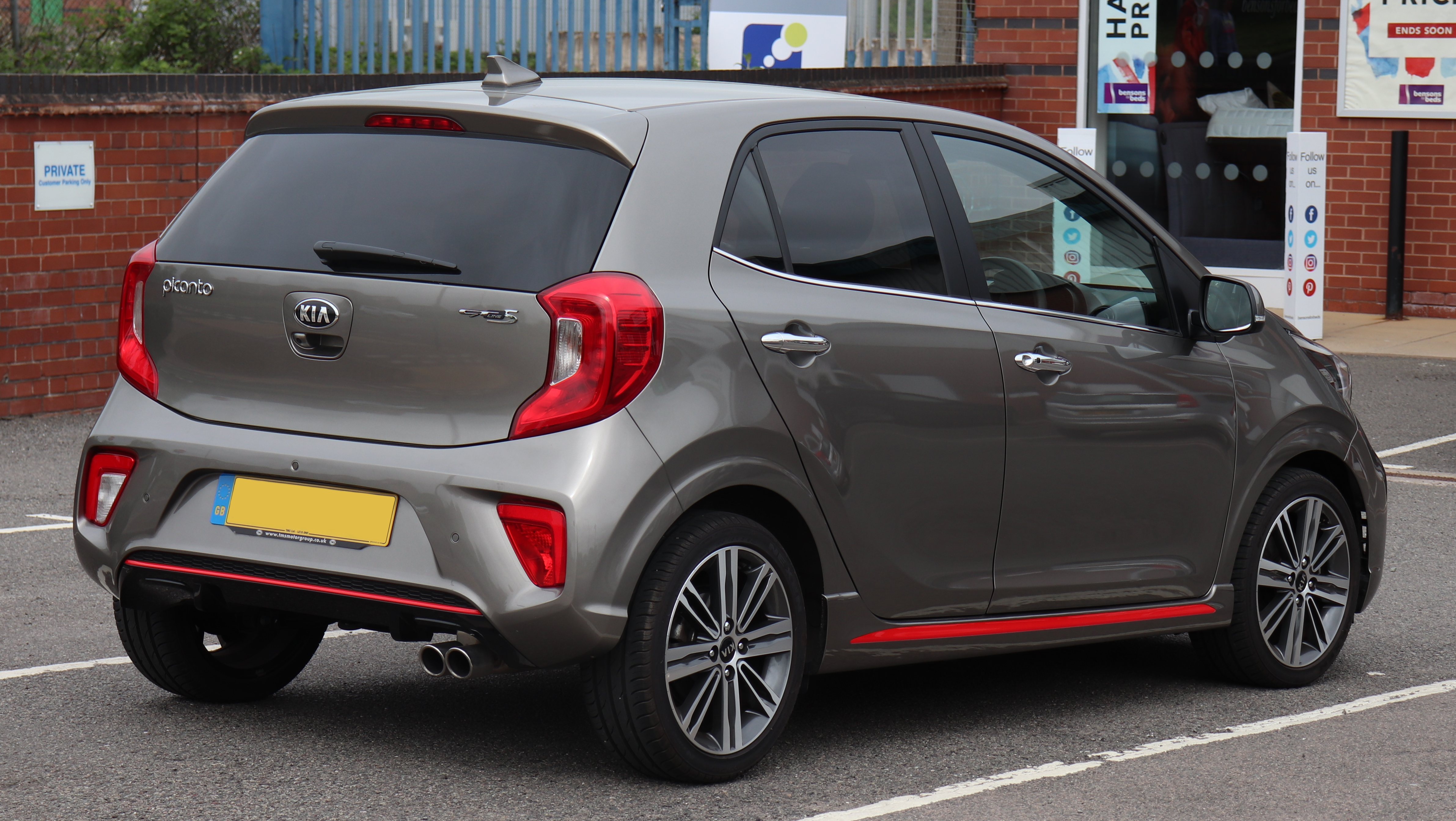 2017 Kia Picanto GT-Line S 1.2 Rear Taken in Leamington Spa